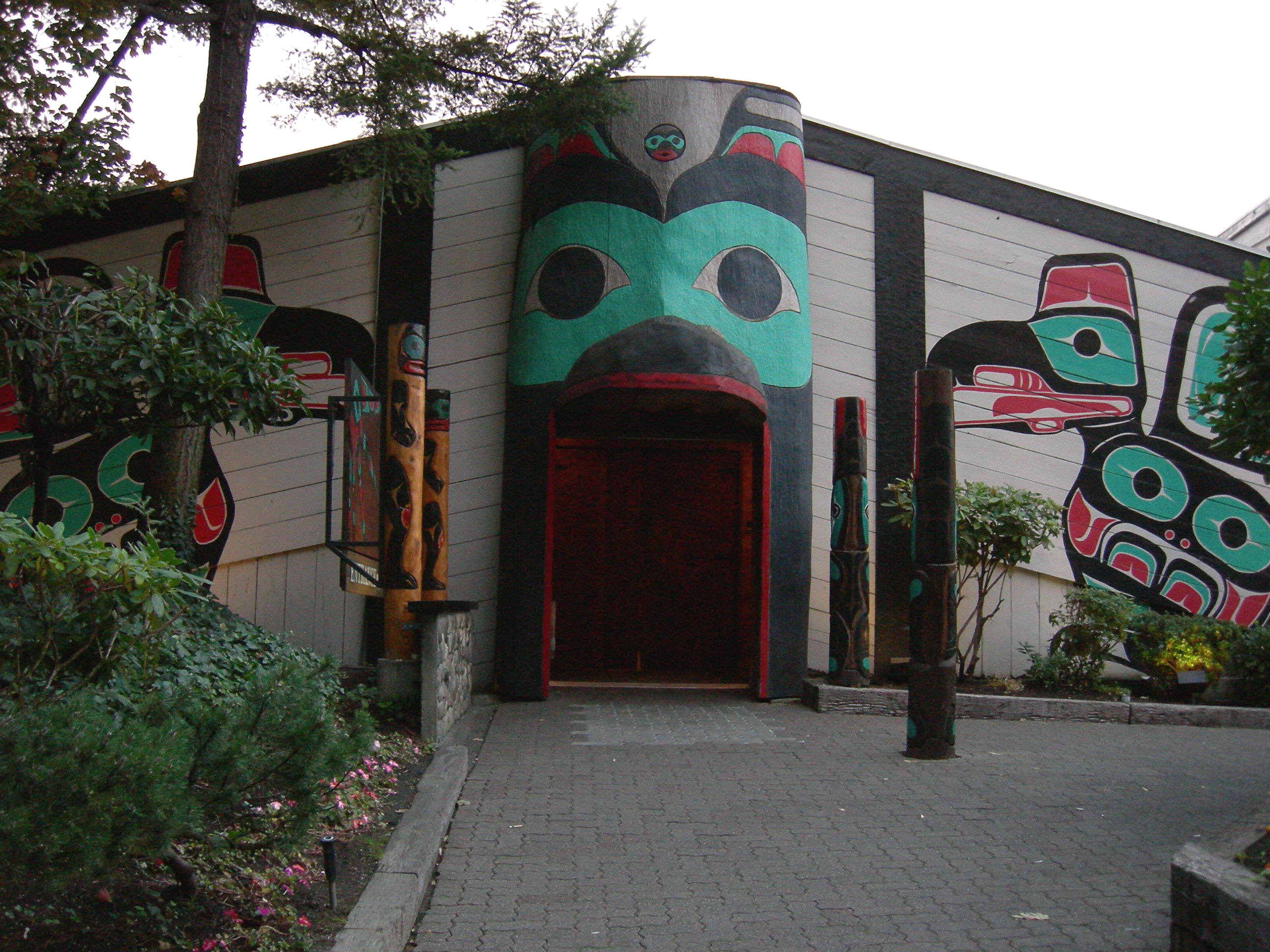 Ivar's Salmon House, north shore of Lake Union, Seattle, Washington. The architecture of the building is based on Northwest Native longhouses